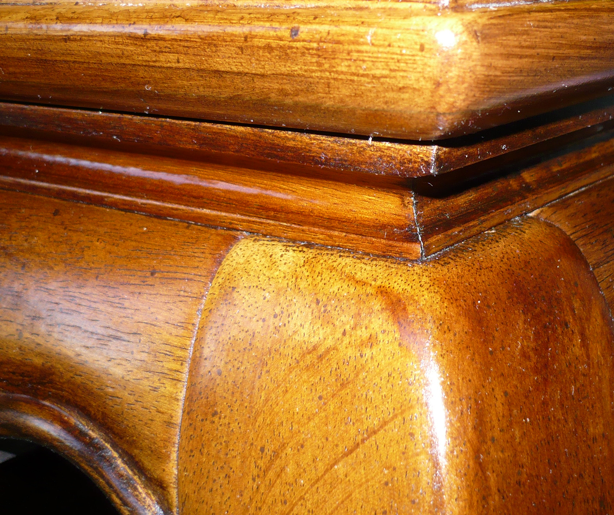 Furniture knee, table knee